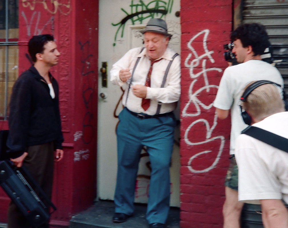 Shooting Matthew Harrison's feature film RHYTHM THIEF on Ridge Street in the Lower East Side in summer of 1993